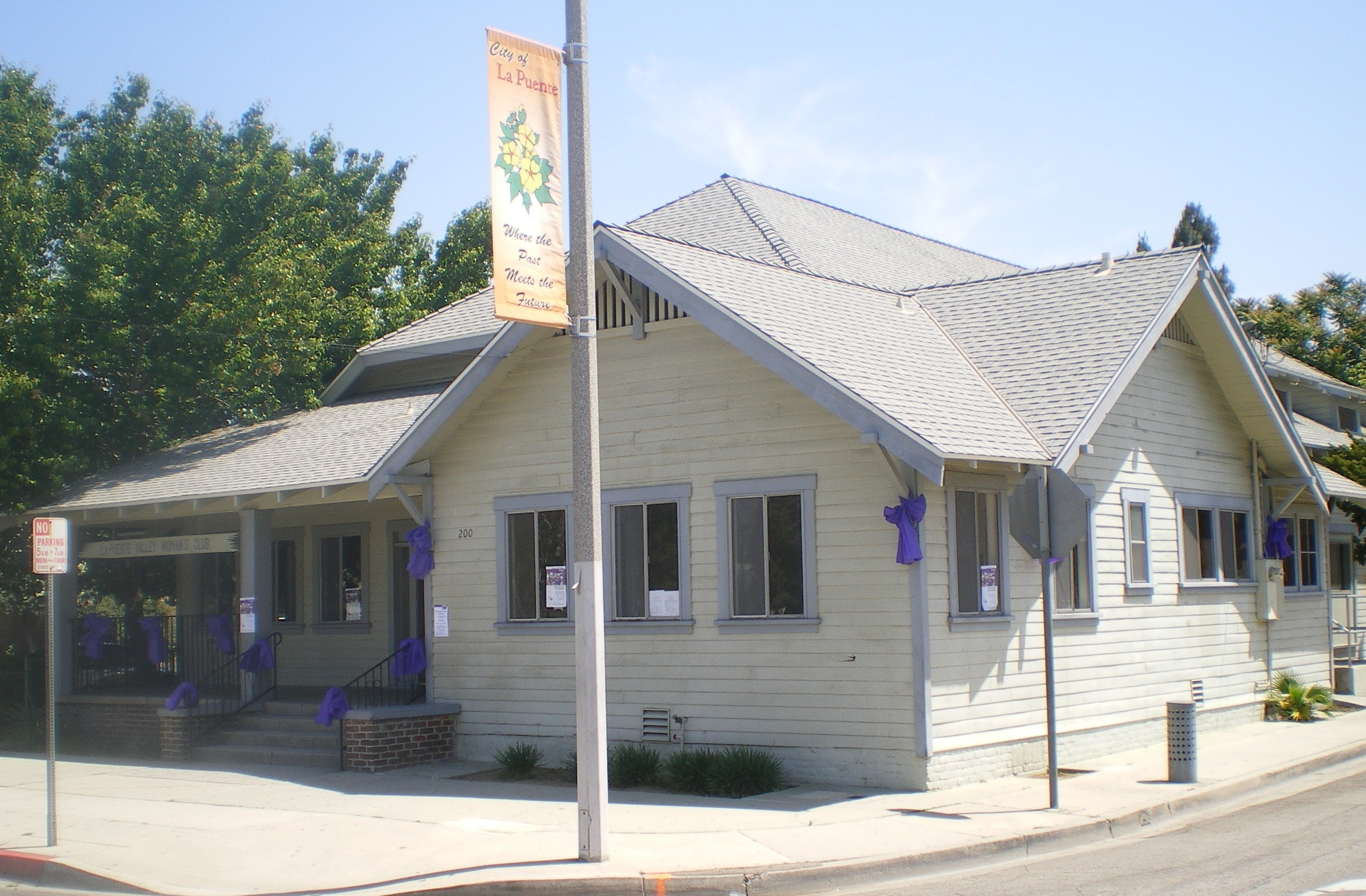 La Puente Valley Women's Club, 200 N. First St., La Puente, California